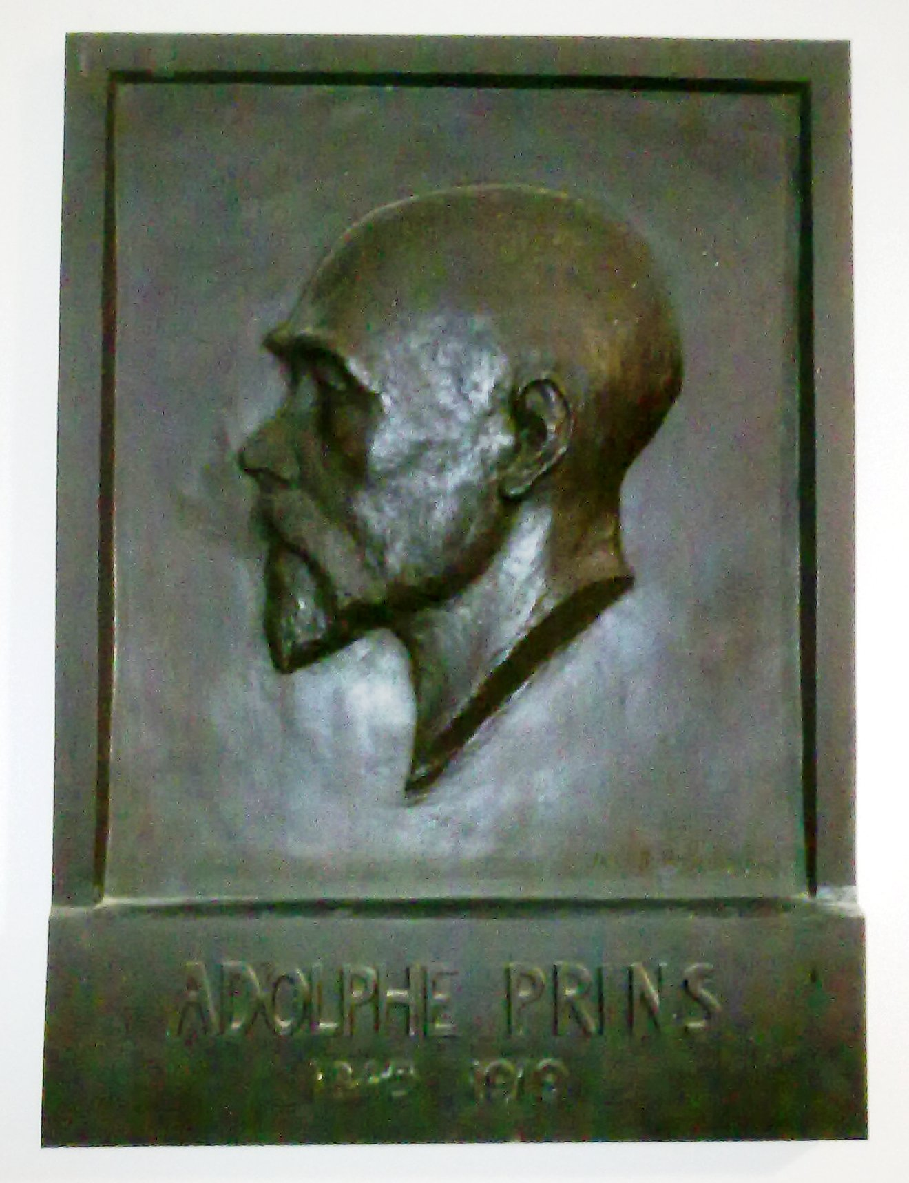 Adolphe Prins the lawyer (1845-1919) portrait in a bronze plate in the corridors of the former Law Faculty, Brussels Liberal University (ULB)